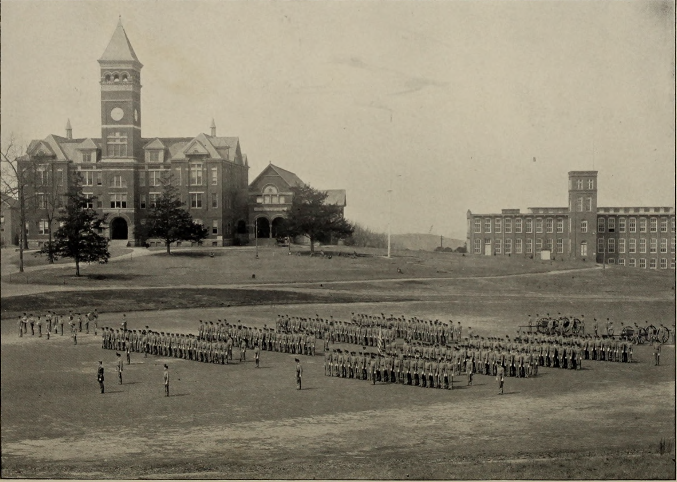 Clemson cadets marching on Bowman Field